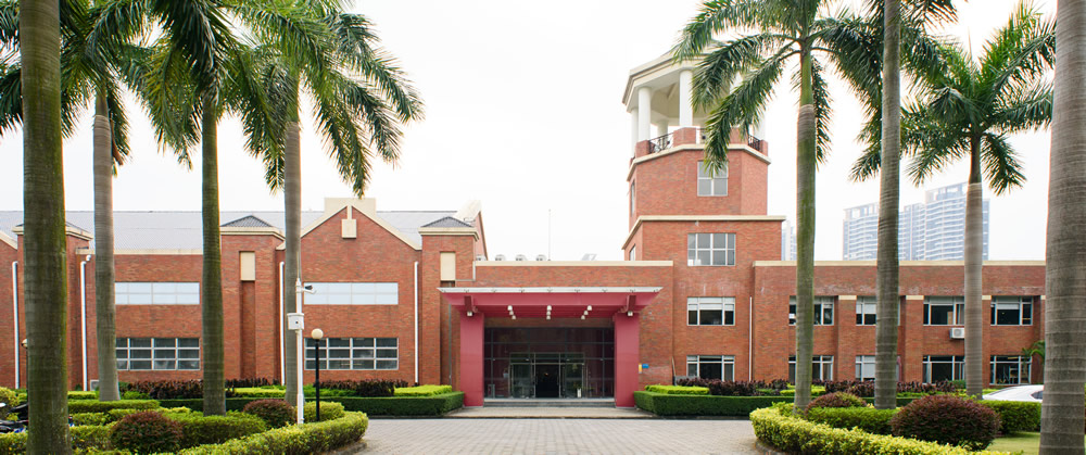 This is from Ulink College Guangzhou, and it is permitted by the school to be used in Wikipedia.